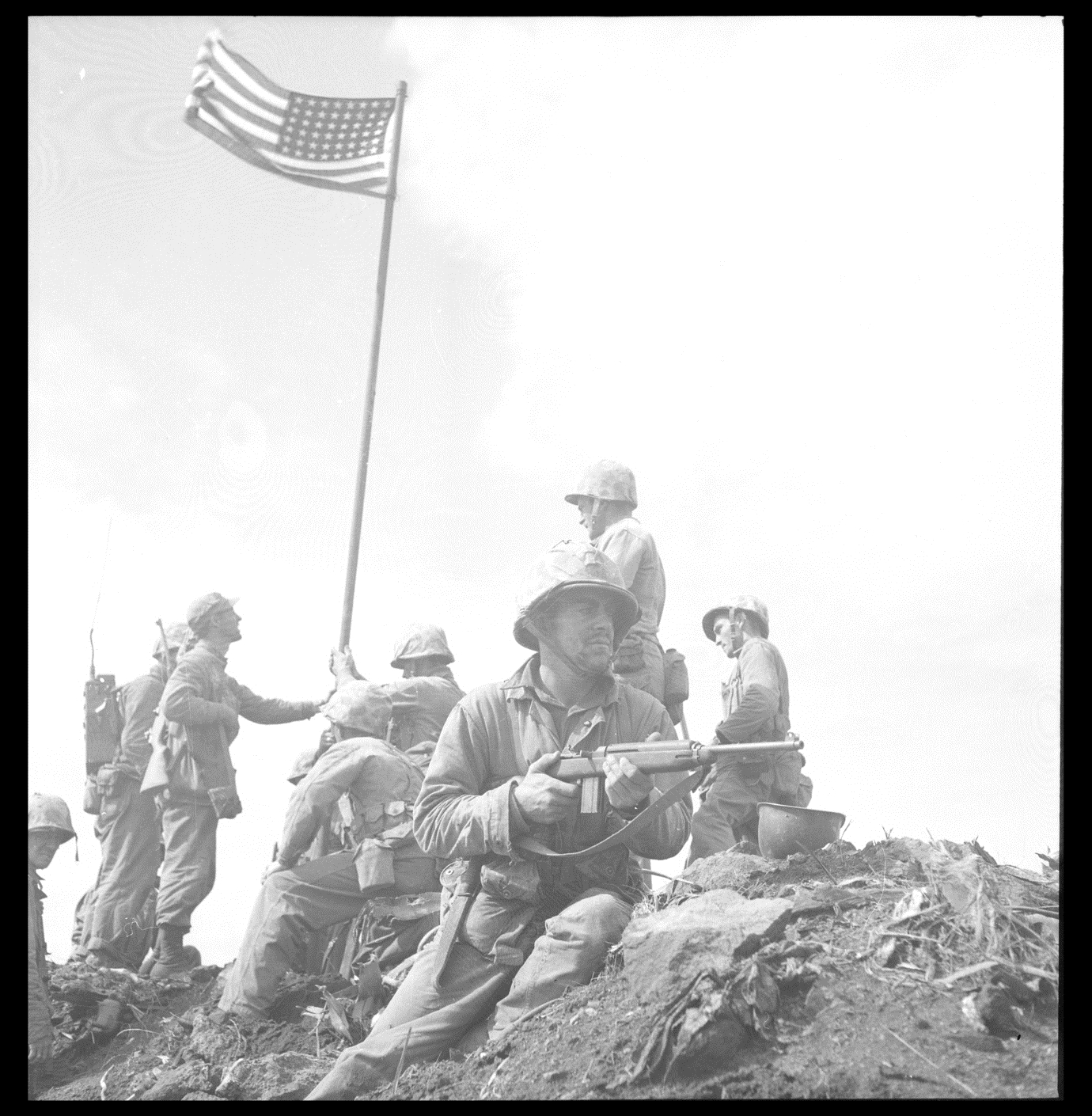 From the Louis R. Lowery Collection (COLL/2575) at the Archives Branch, Marine Corps History Division OFFICIAL USMC PHOTOGRAPH